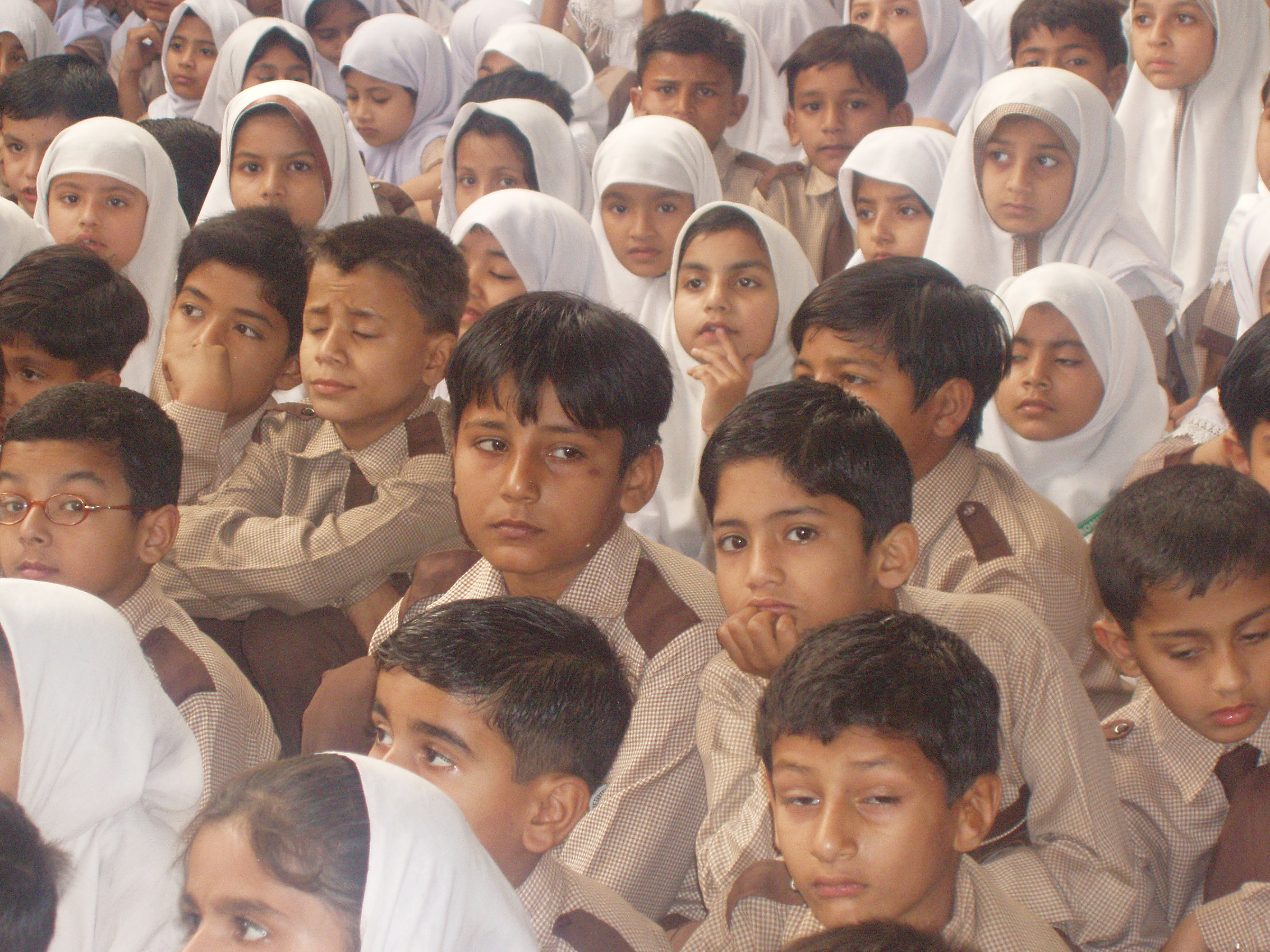 The Eastern Public School & College